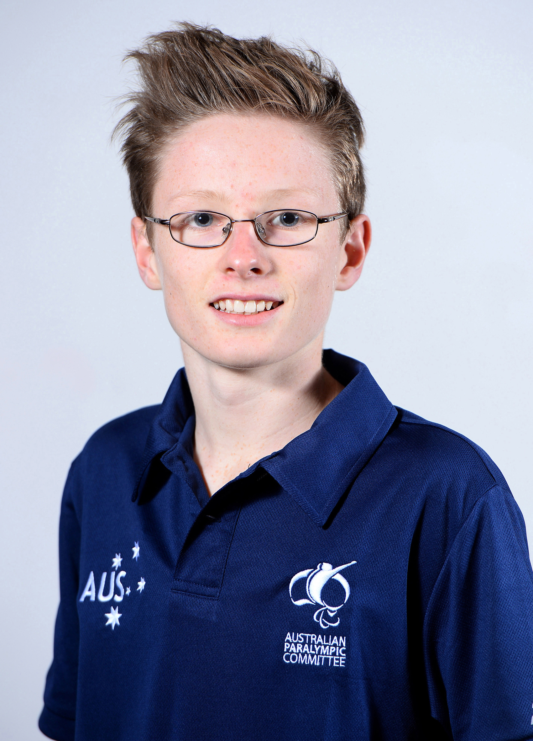 Portrait photograph of Jaryd Clifford taken at team processing session for shadow members of 2016 Australian Paralympic team